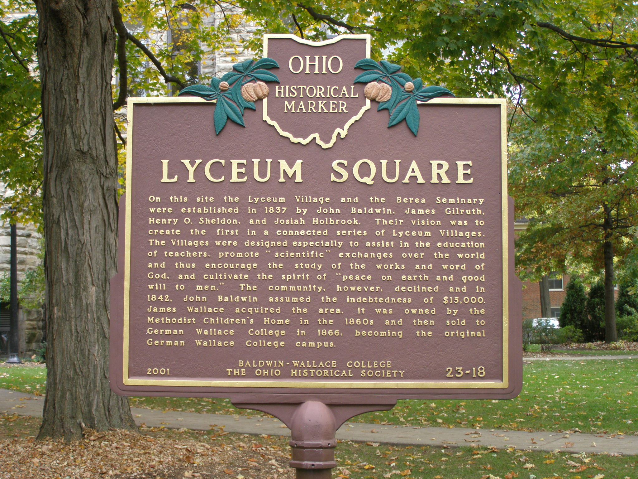 On this site the Lyceum Village and the Berea Seminary were established in 1837